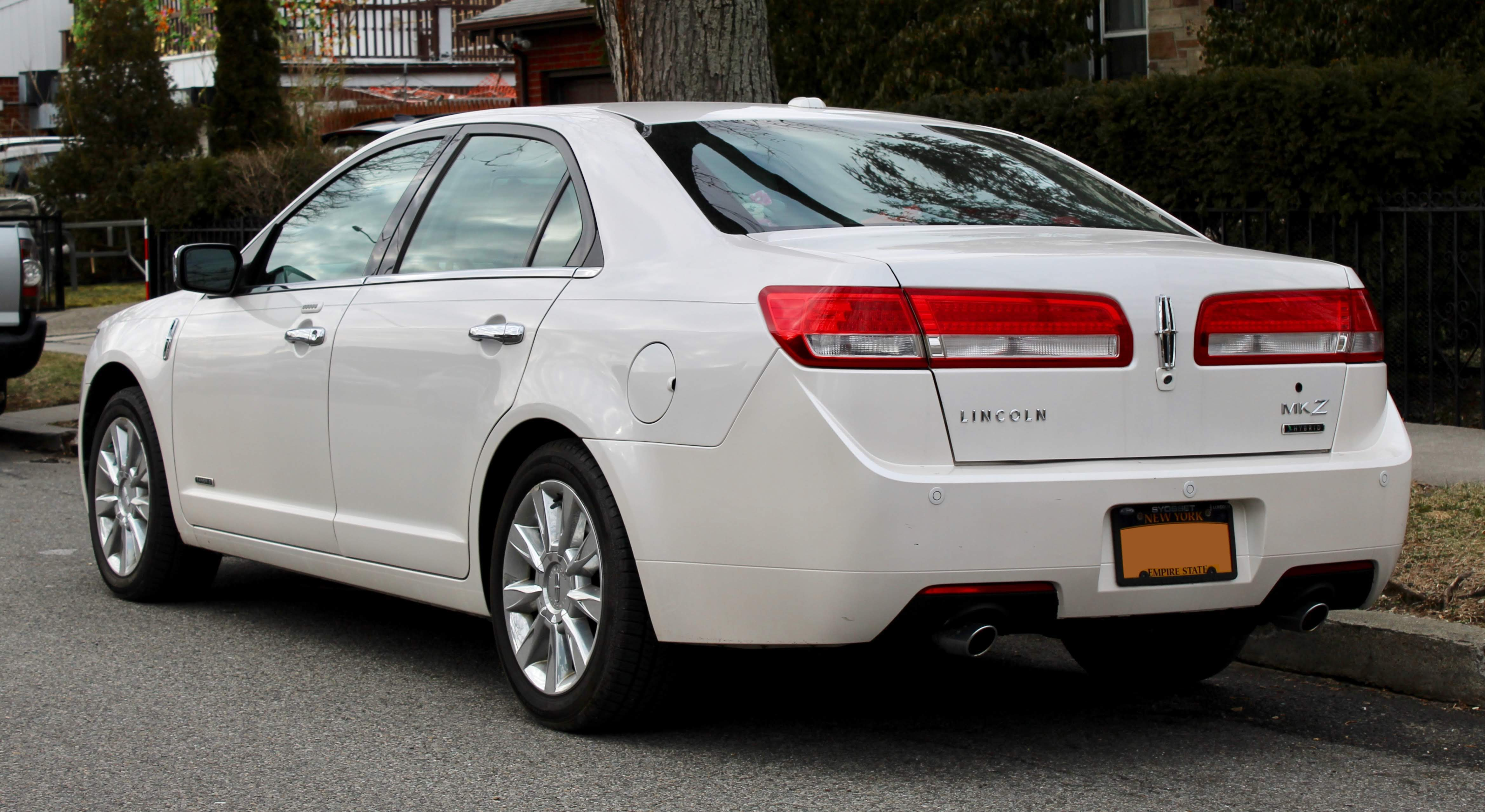 Photographed in Queens, New York, USA